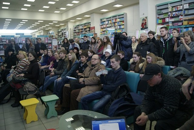 Улица Искусств в Рязане